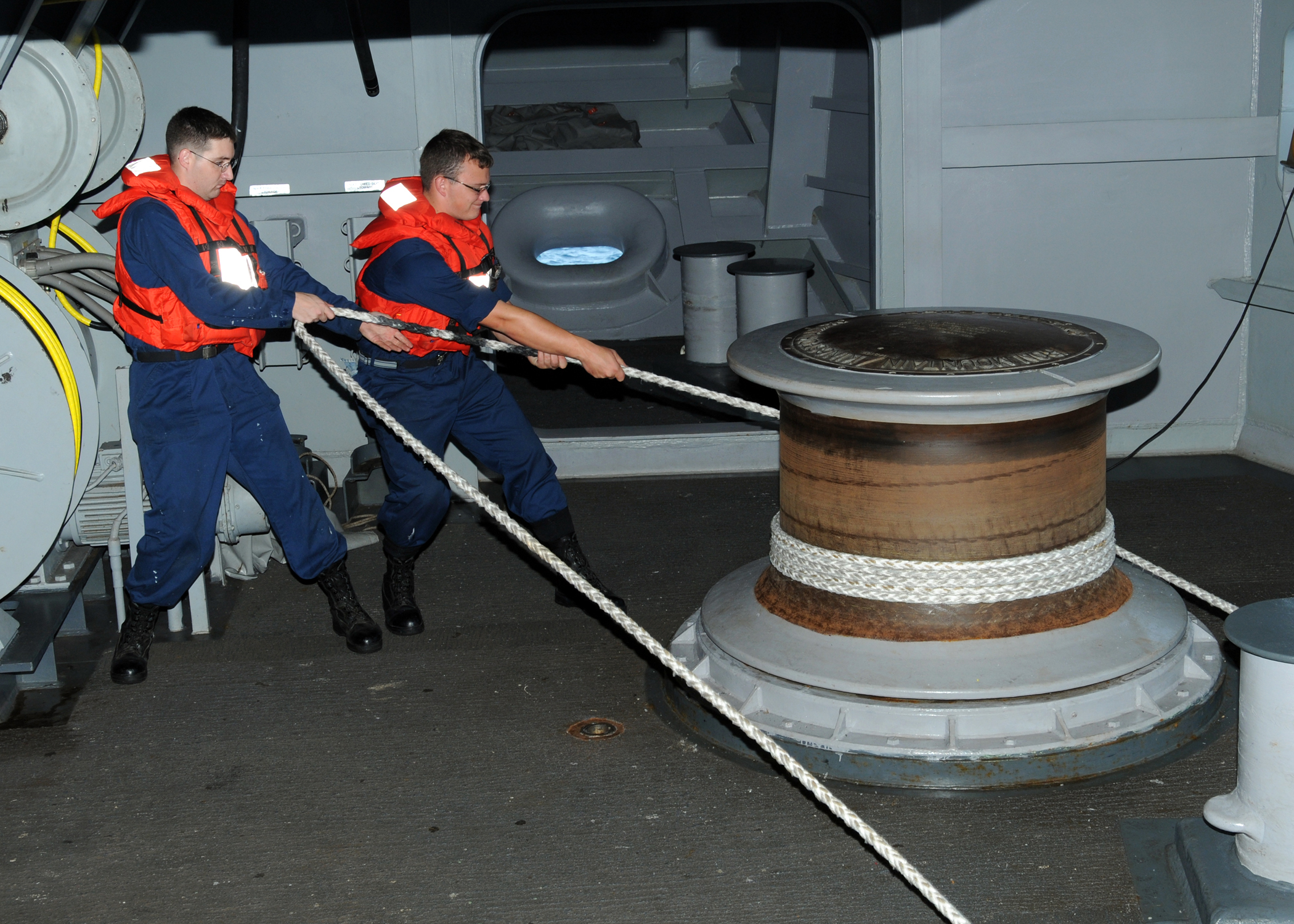 ATLANTIC OCEAN (Sept. 24, 2010) Deck department Sailors heave a line around a capstan aboard the aircraft carrier USS George H.W. Bush (CVN 77). George H.W. Bush is performing training operations in the Atlantic Ocean. (U.S. Navy photo by Mass Communication Specialist Seaman Kevin J. Steinberg/Released)